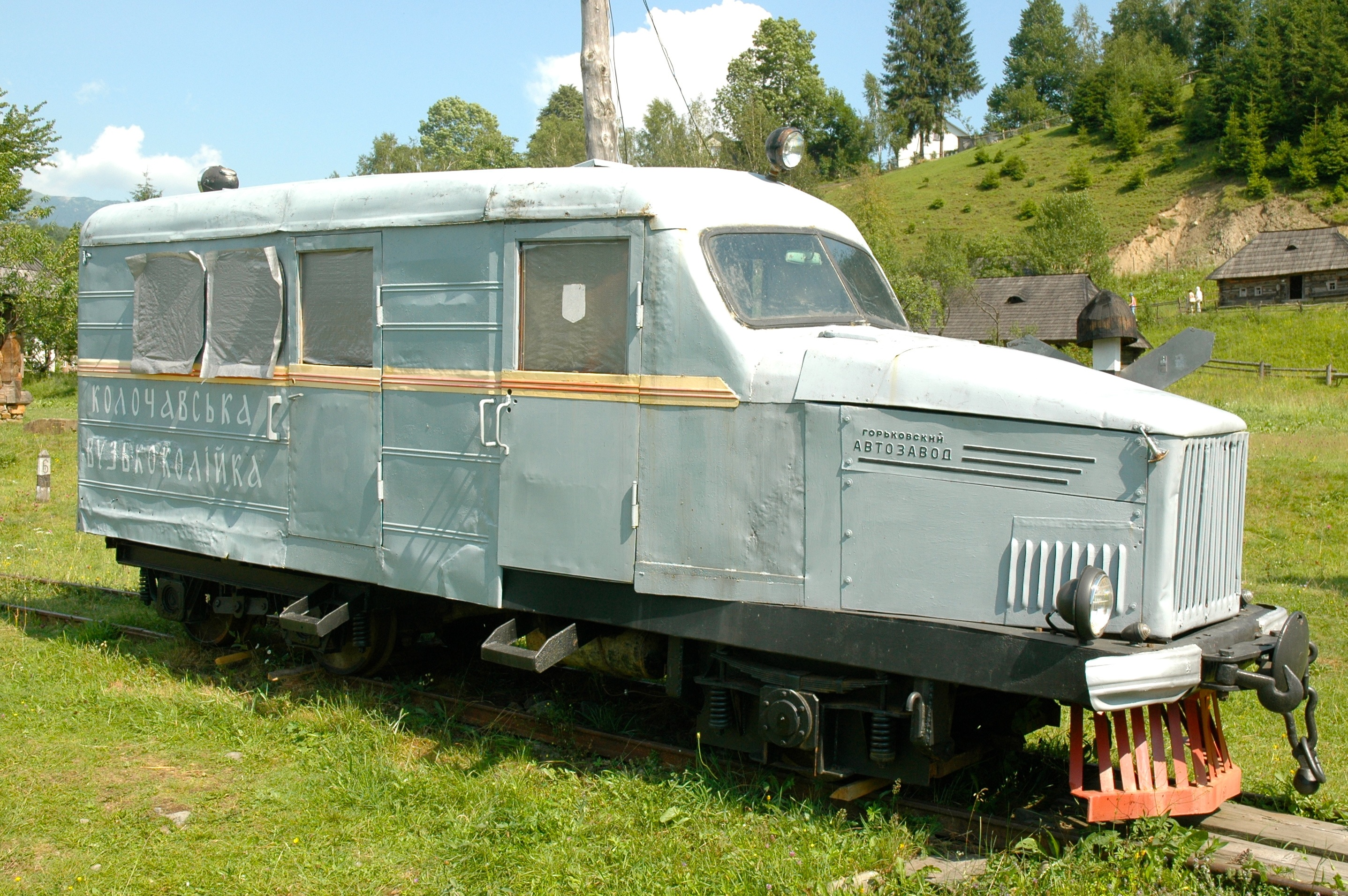 SMD-1 Soviet ambulance draisine of the former Kolochava Narrow Gauge Railway